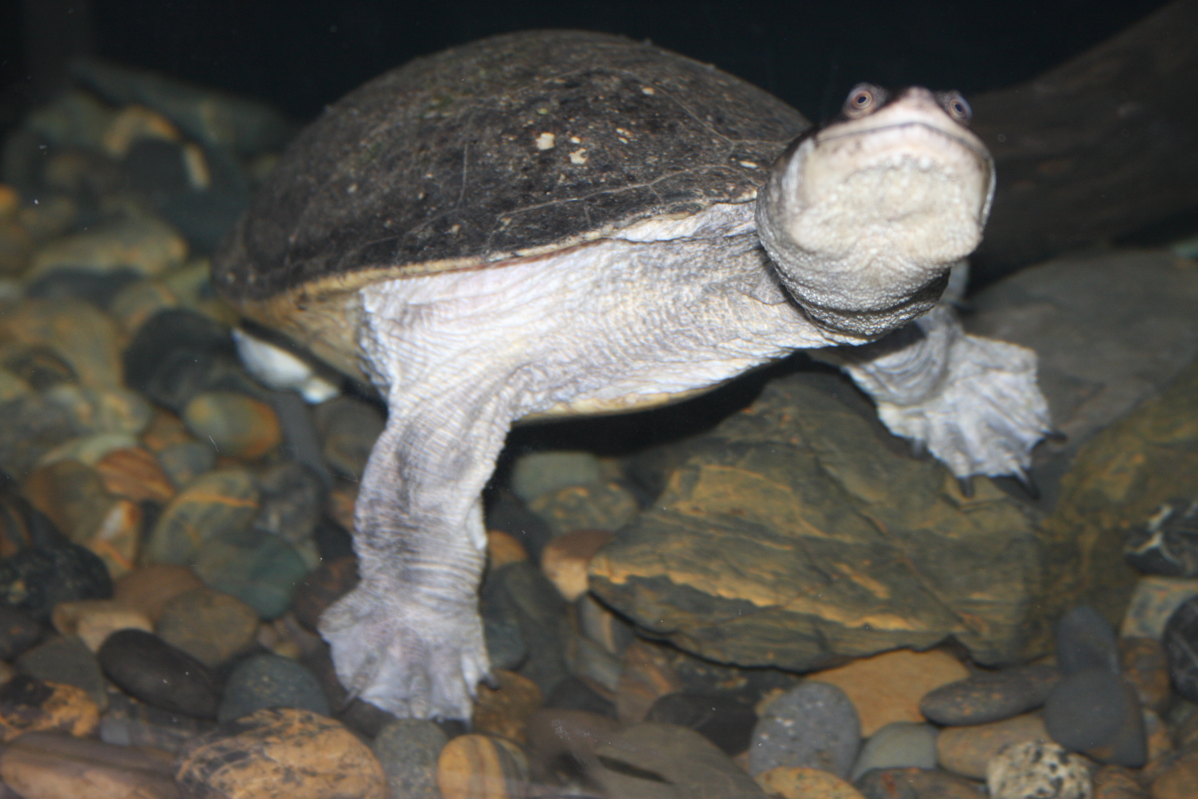 Chelodina longicollis in Siam centre, Bangkok